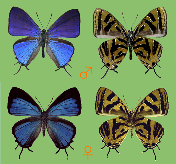 Catapaecilma nakamotoi, male and female